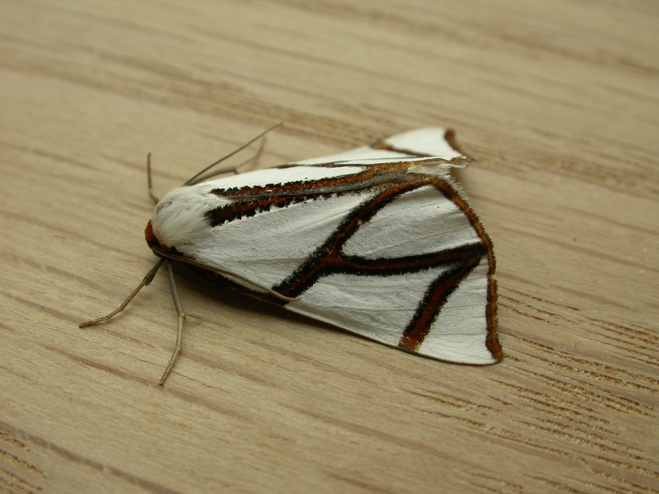 Thalaina clara Walker, 1855, to MV light in Aranda, ACT, 1/2 April 2008